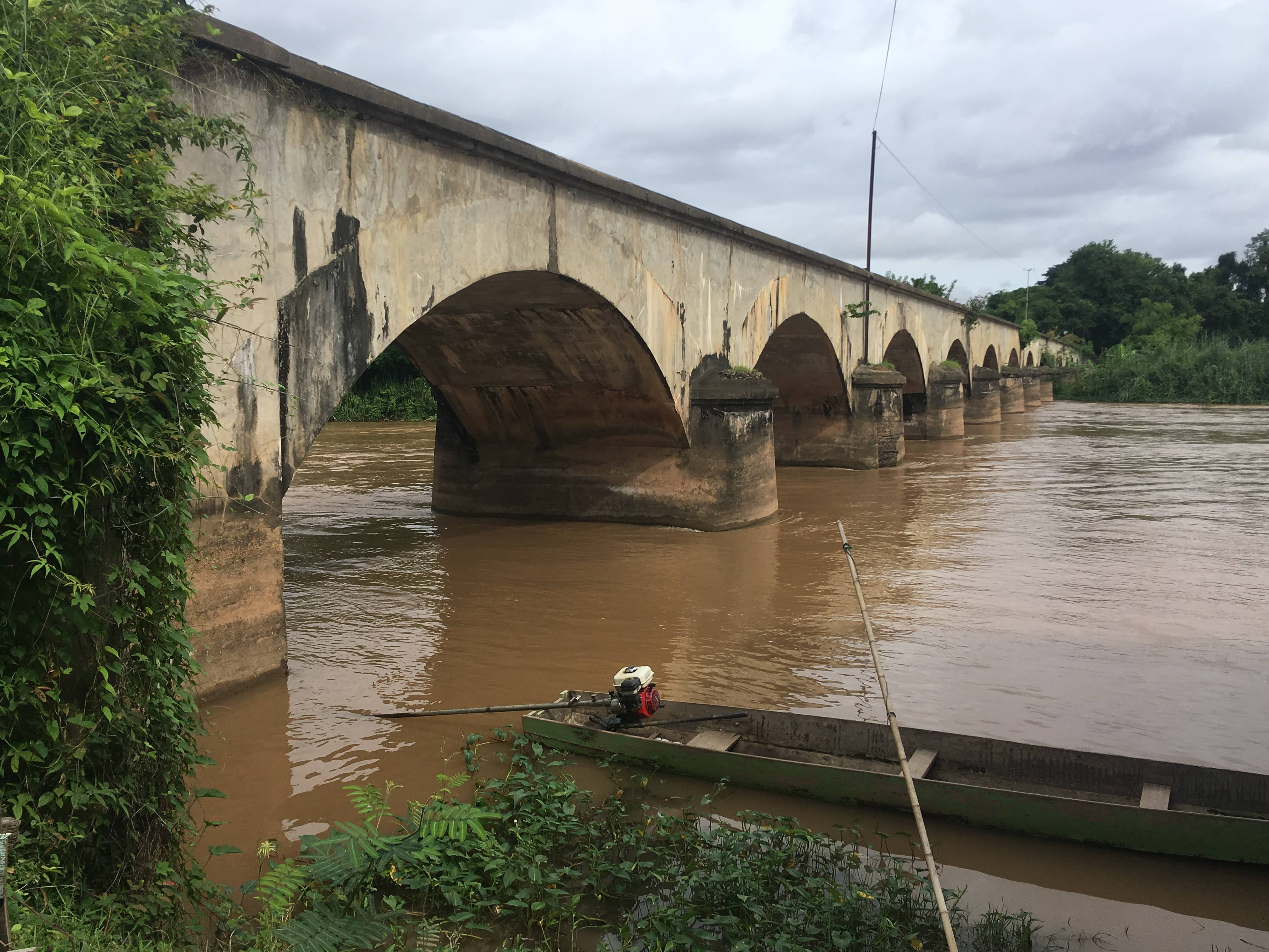 The historic bridge between Don Det and Don Khon.